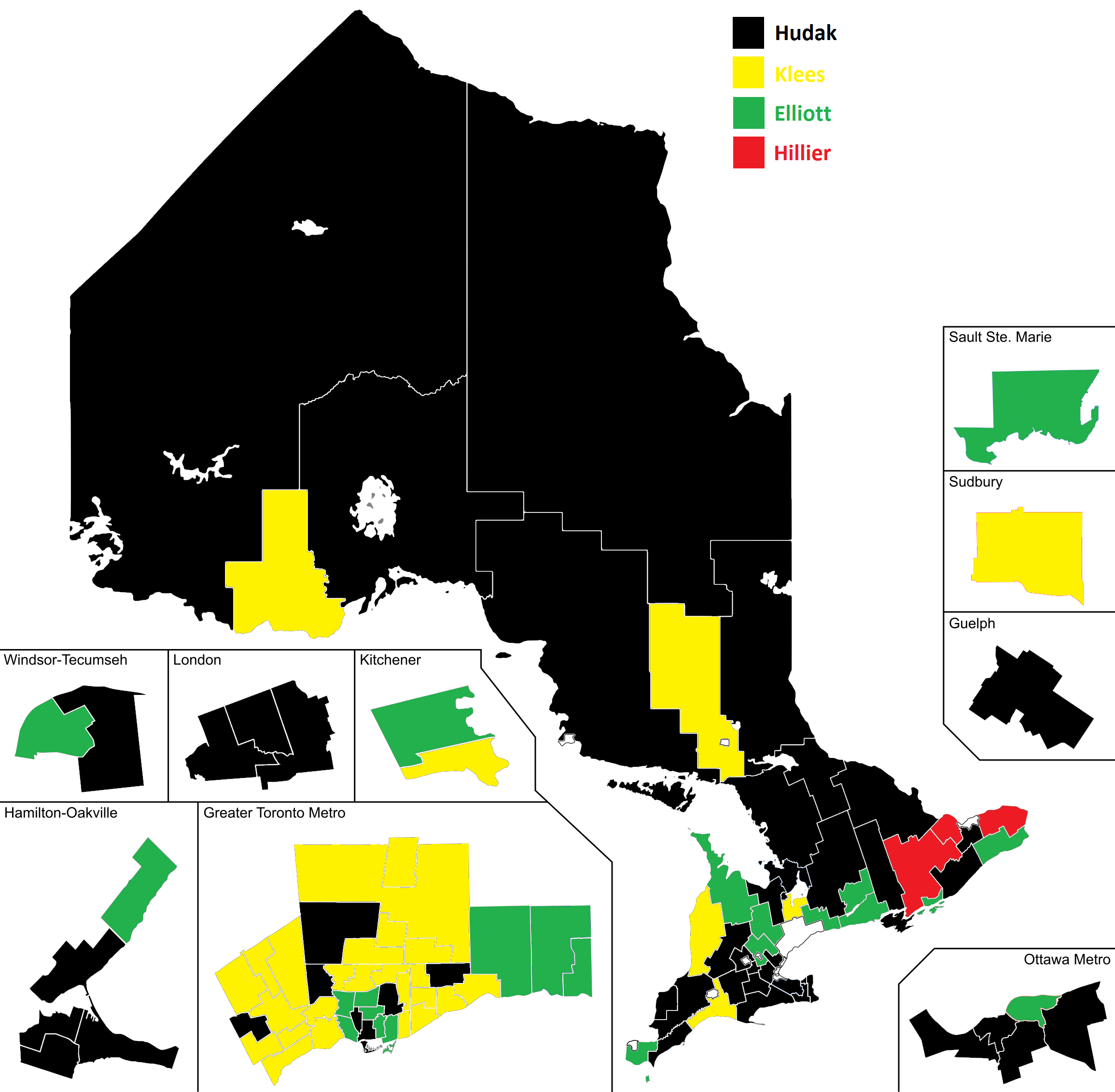 Map Base from DrRandomFactor